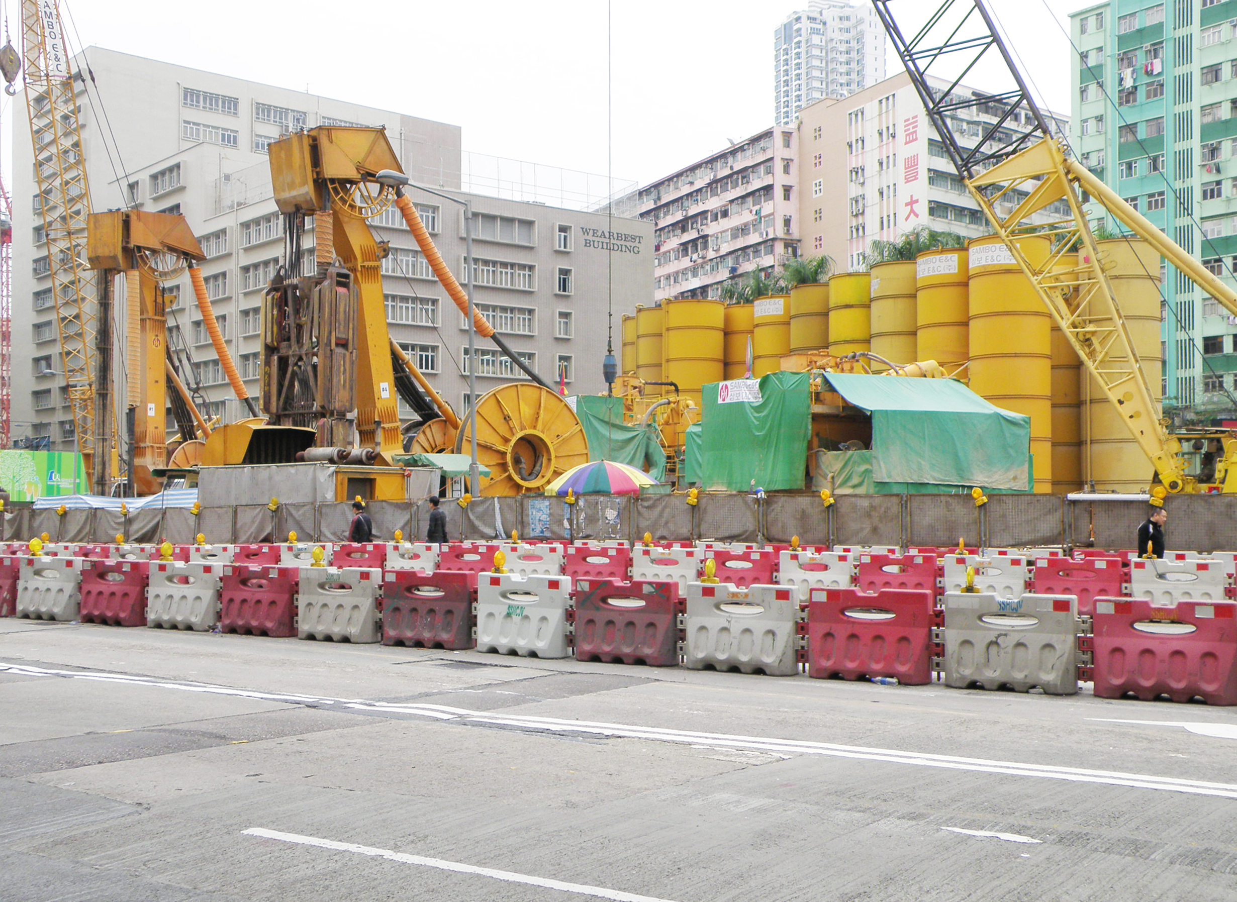 To Kwa Wan Station in Ma Tau Wai, Hong Kong.